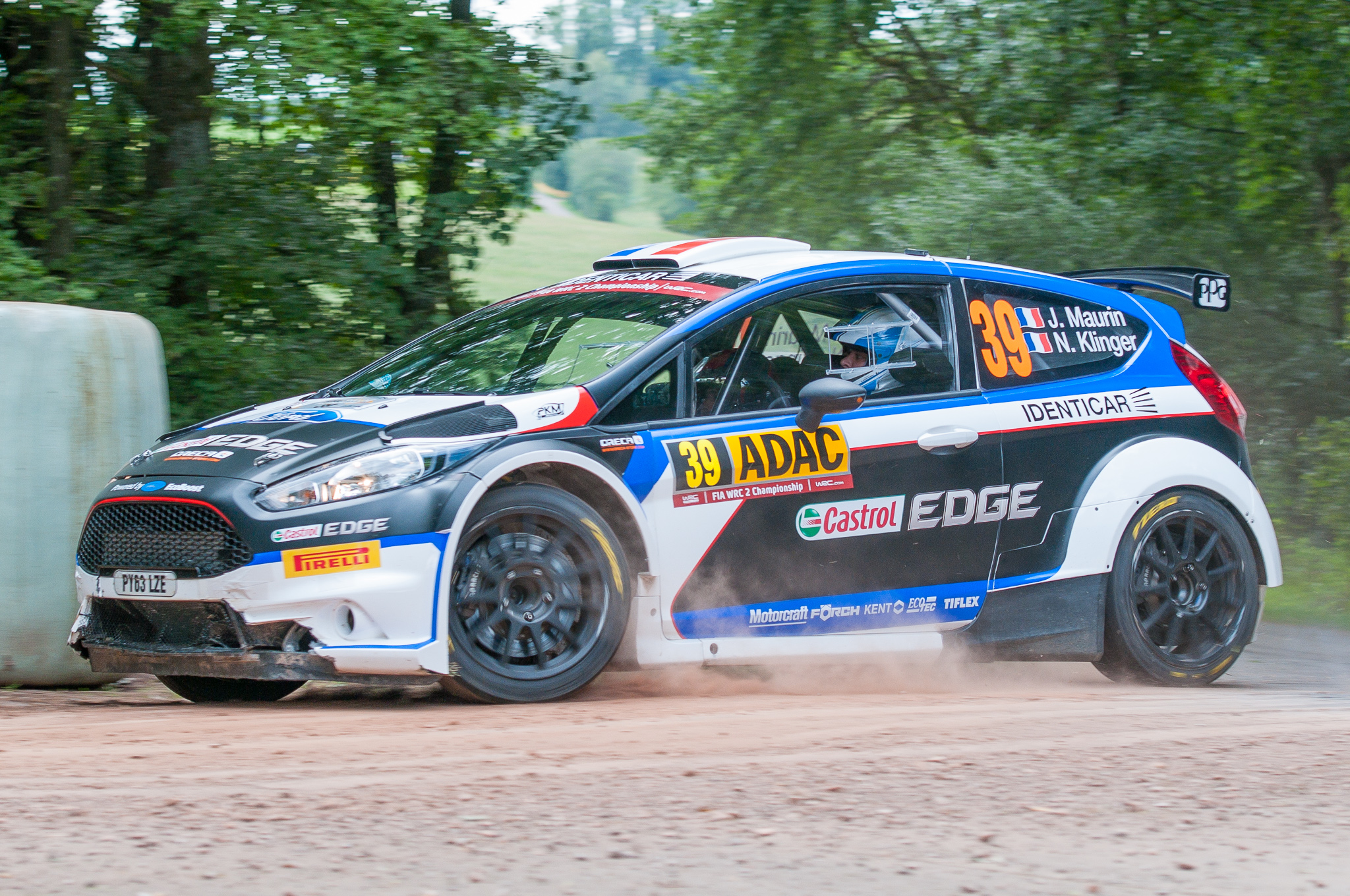 ADAC Rallye Deutschland 2014,FIA,FIA World Rally Championship,Ford Fiesta R5,Julien Maurin,Motorsport,Nicolas Klinger,Rally,Rallye,SS 5,WP 5,WRC 2,Waxweiler 2